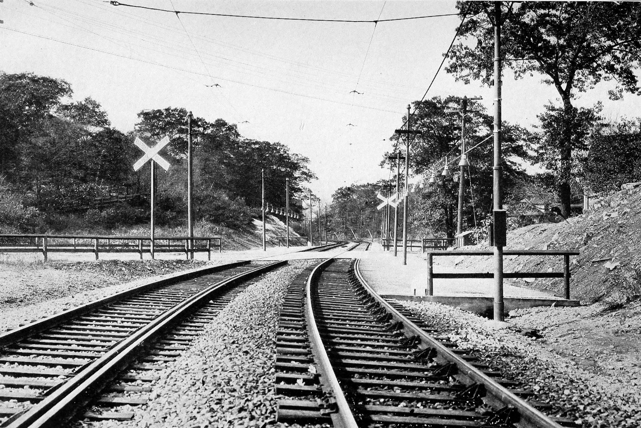 The newly-opened Capen Street flag stop in 1930. Not an original stop on the line, it was constructed in mid-1930 with gravel-and-asphalt platforms and opened around September.